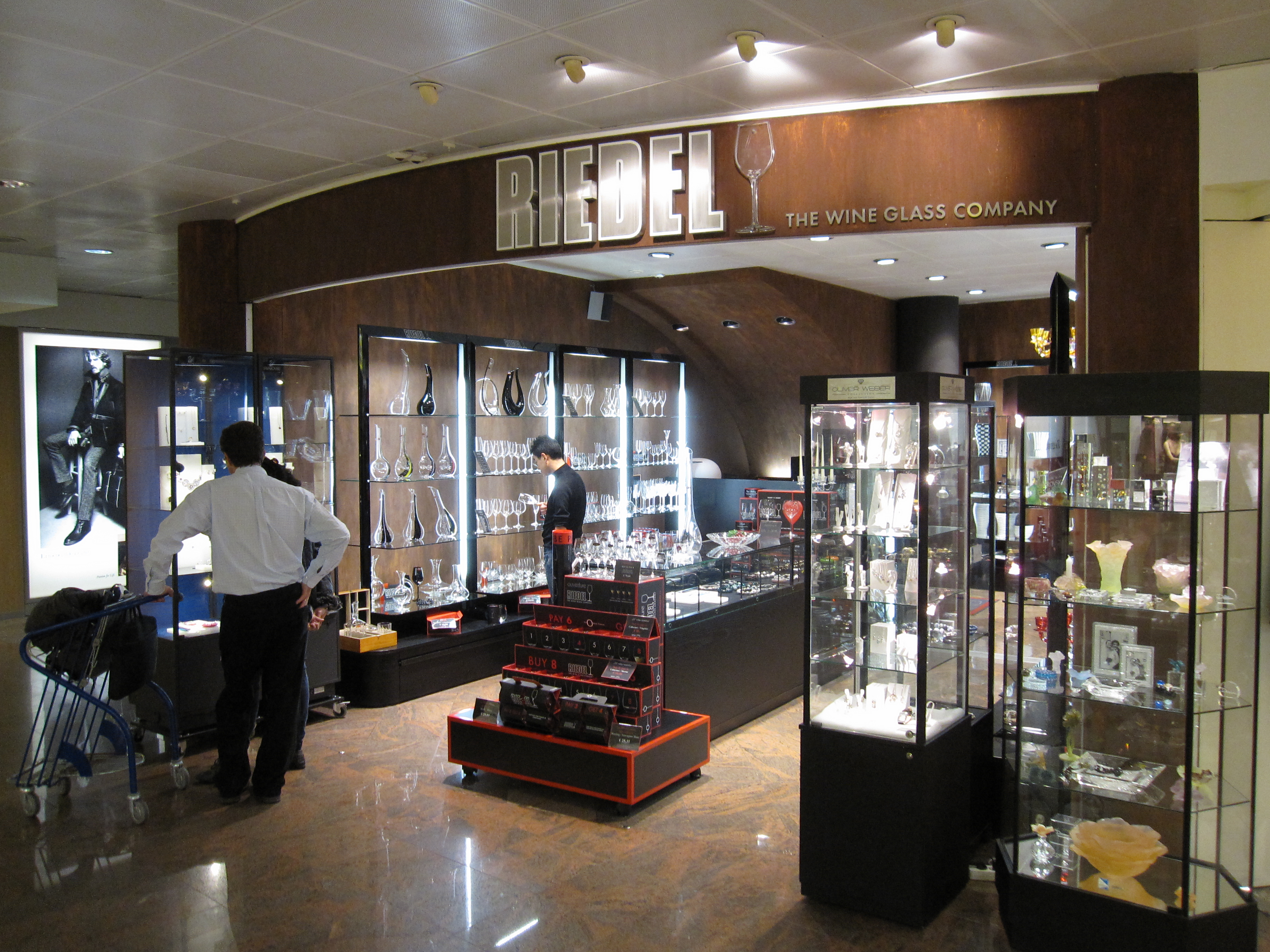 Riedel glass manufacturer store in Vienna.